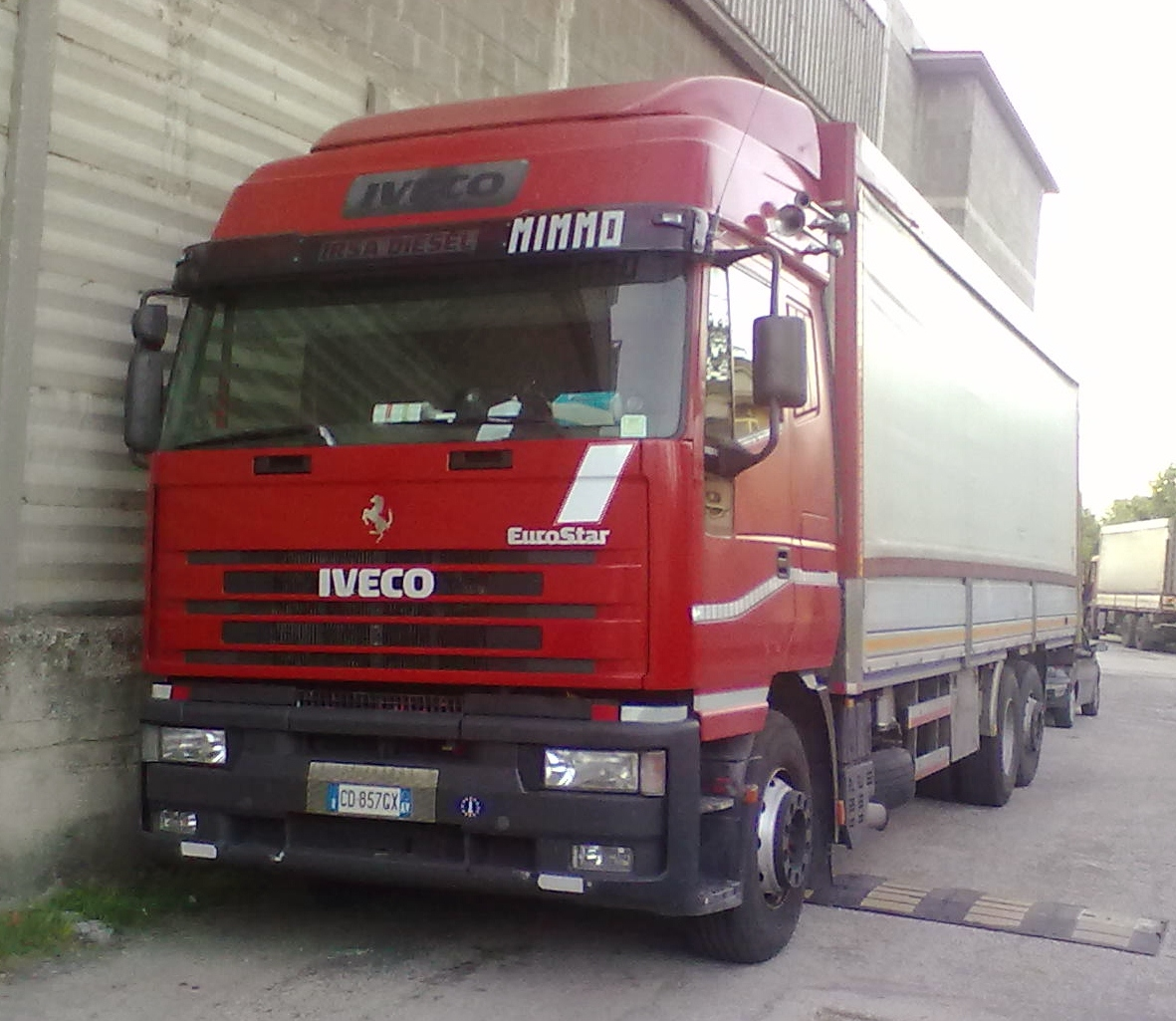 Iveco EuroStar in Avellino, Italy